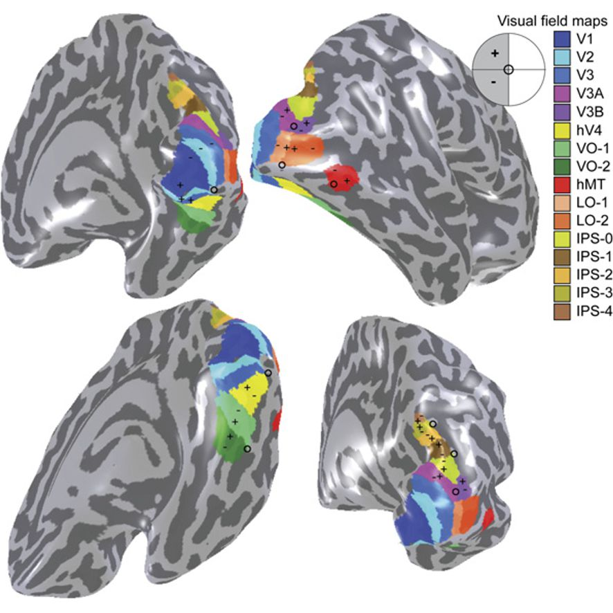 Visual field maps in human visual cortex